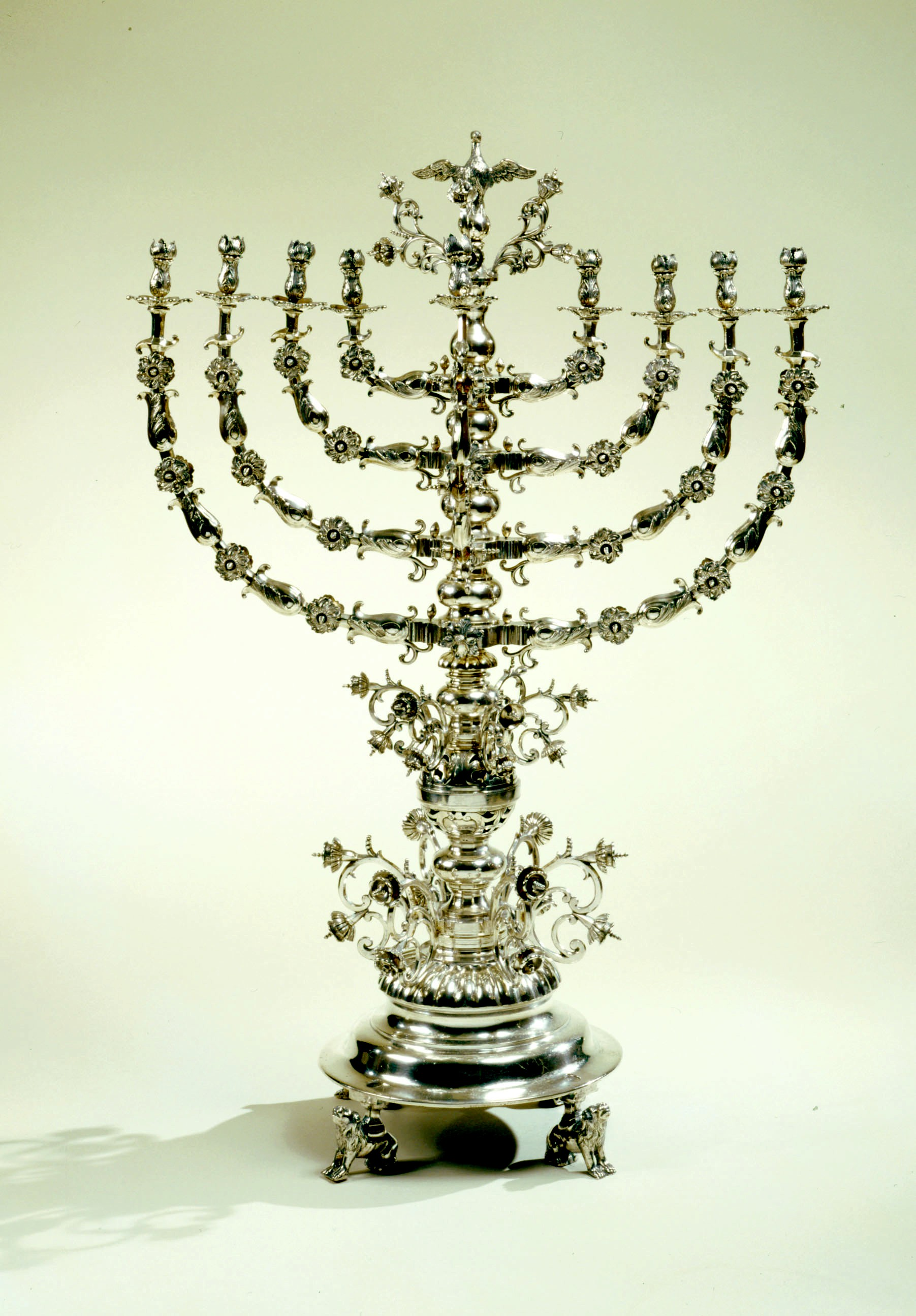 Hanukkah Lamp BD Lemberg (Lviv, Ukraine), 1867-72 Silver: cast, engraved, and traced 34 1/4 x 23 7/8 x 15 in. (87 x 60.7 x 38.1 cm) Gift of Dr. Harry G. Friedman in memory of Adele Friedman, F 5119